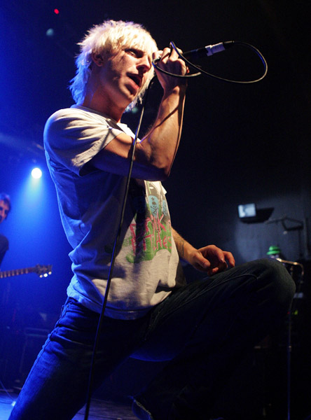 Nathan Leone